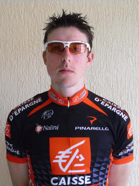 Ángel Madrazo Ruiz